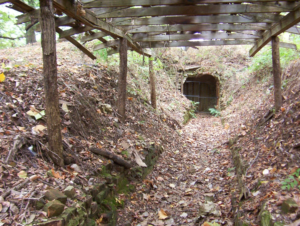 Entrance of the powder magazine of Fort Wright (historical) in Randolph, Tennessee. I made the photo myself, feel free to use it.